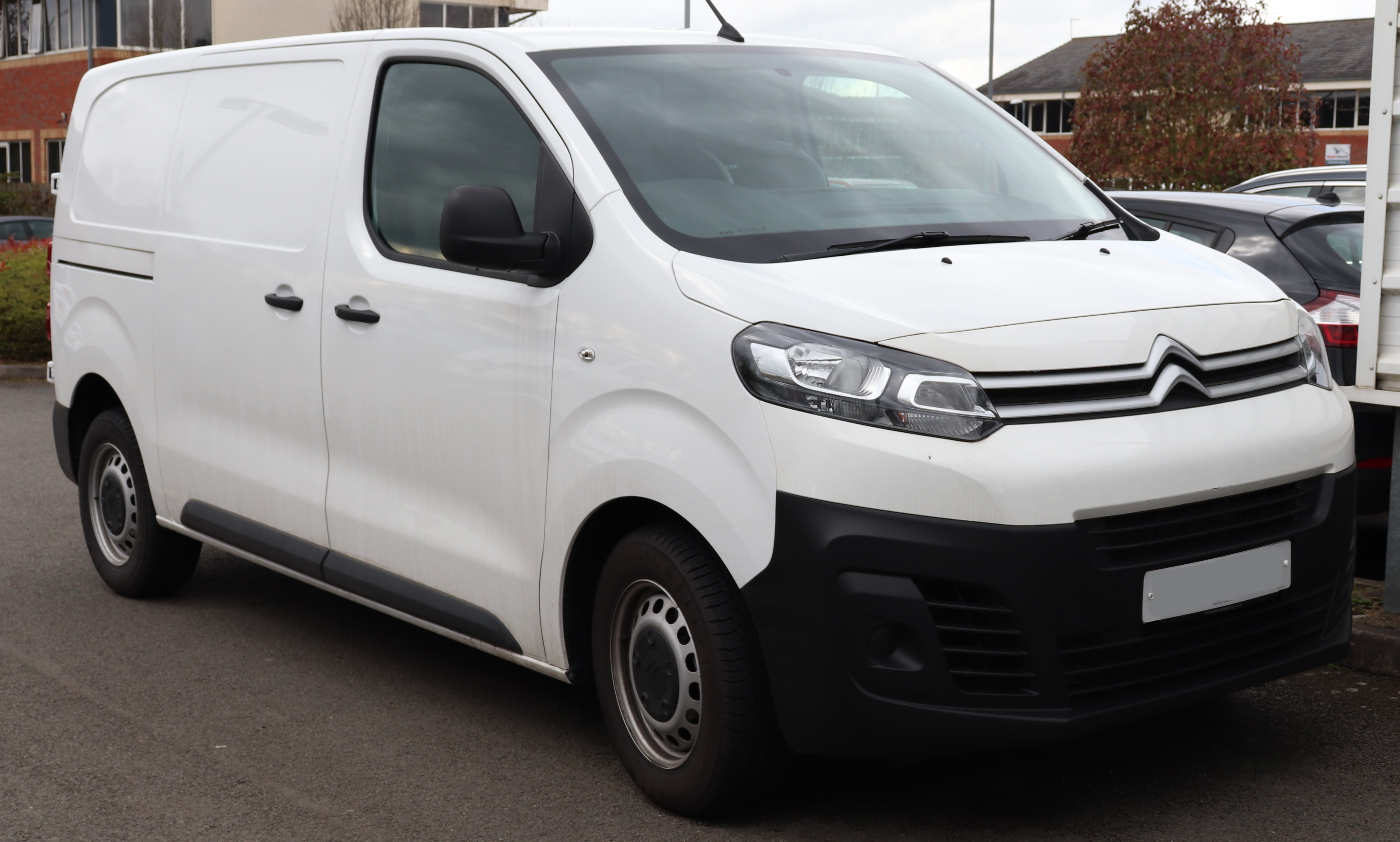 2017 Citroen Dispatch 1400 2.0 Front Taken in Leamington Spa